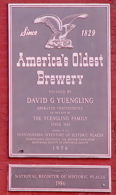 A plaque on the Yuengling Brewery, Pottsville, Pennsylvania, commemorating its status as "America's Oldest Brewery".